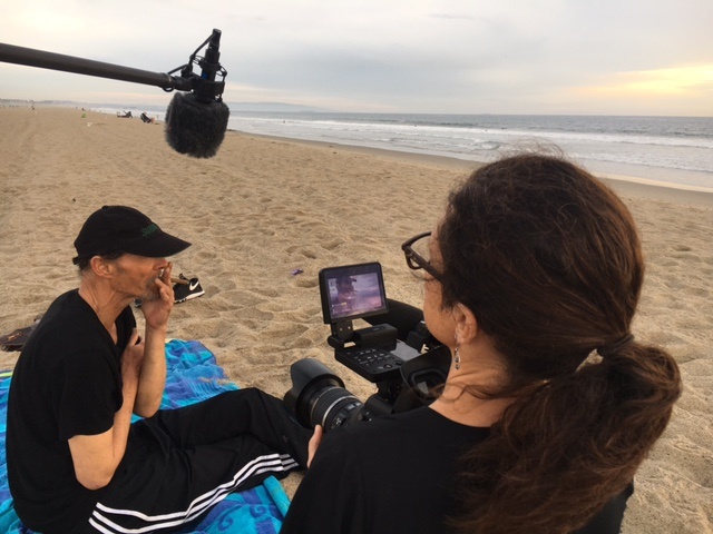 Irene Taylor Brodsky filming Homeless: The Soundtrack.